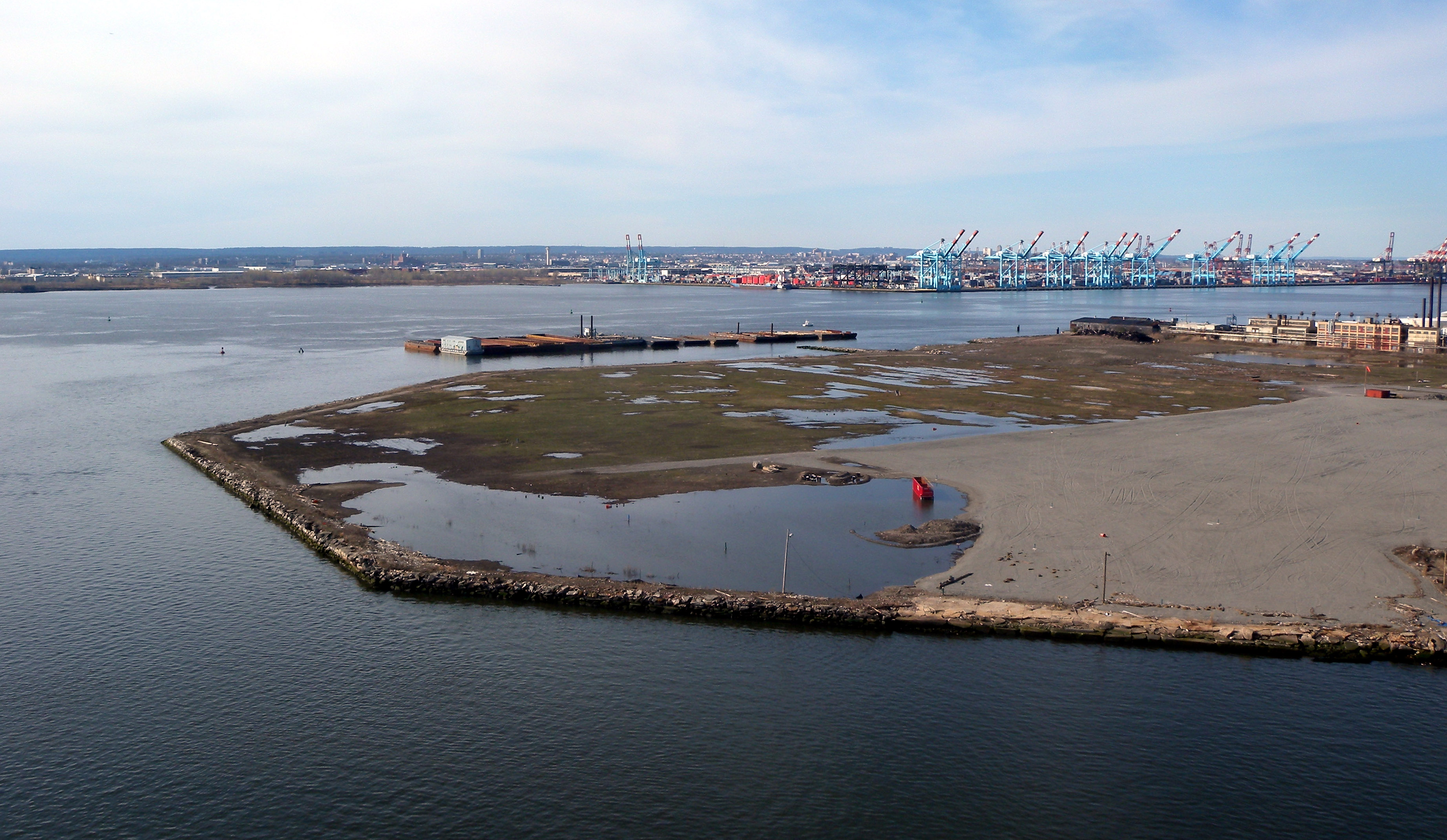 Looking northwest and down from footpath of Bayonne Bridge at the western point separating Kill Van Kull from Newark Bay at high tide on a sunny early afternoon.